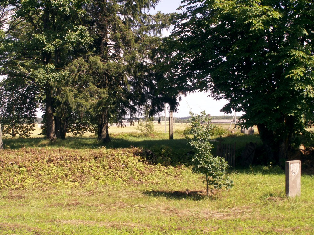 Beinoriškė, Šiauliai district, Lithuania